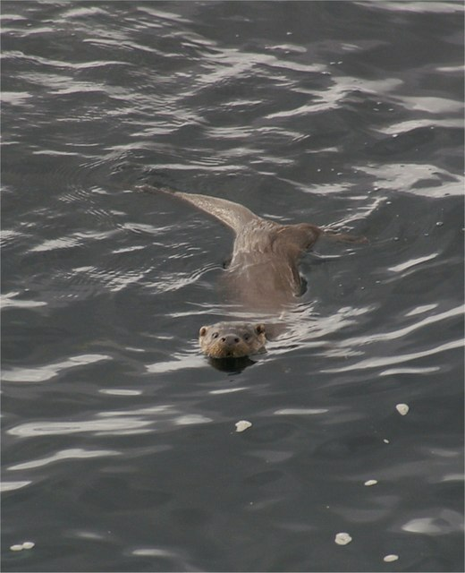 Otter at Hoga Ness